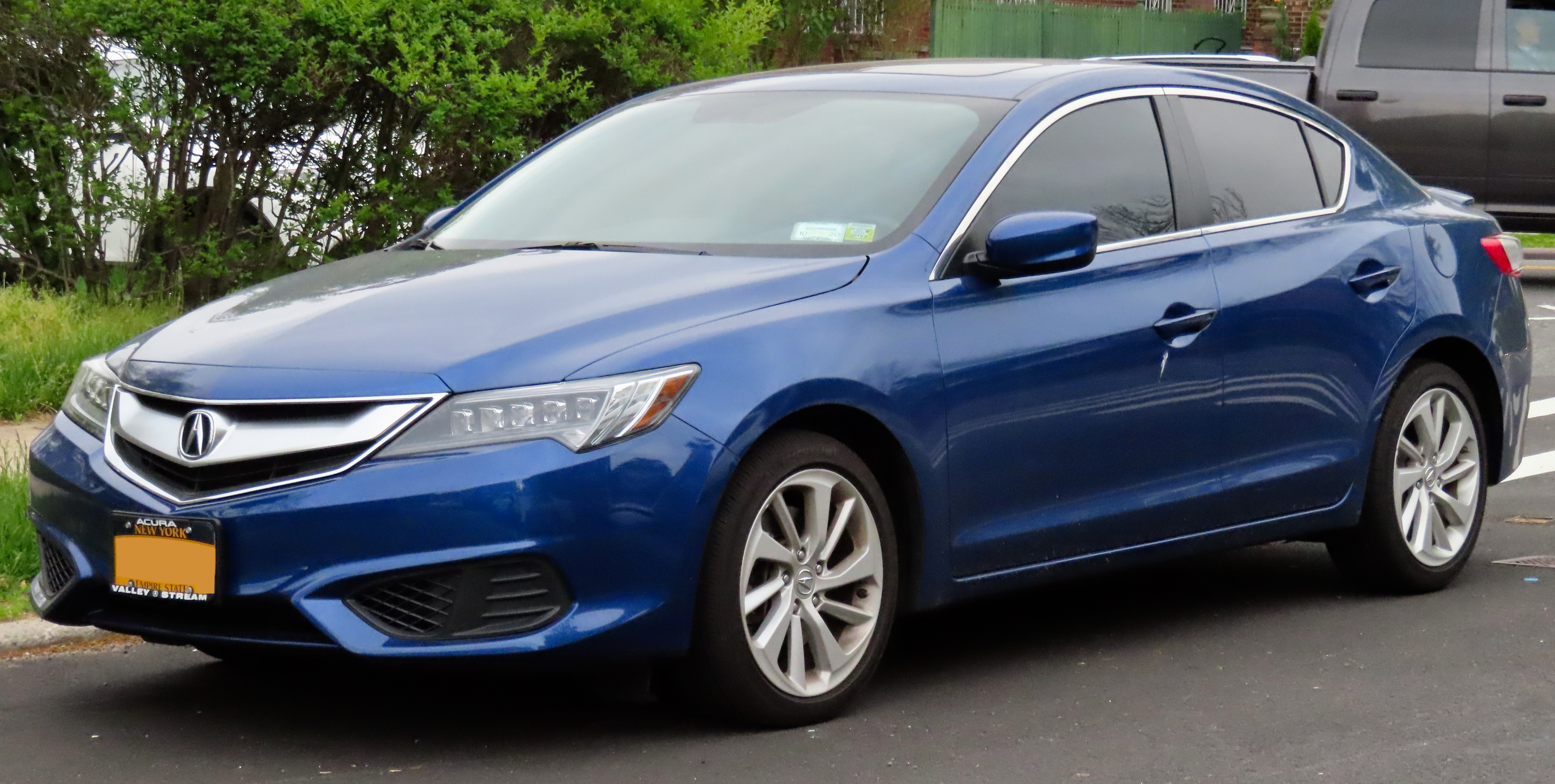 A 2017 Acura ILX photographed in Queens, New York, USA